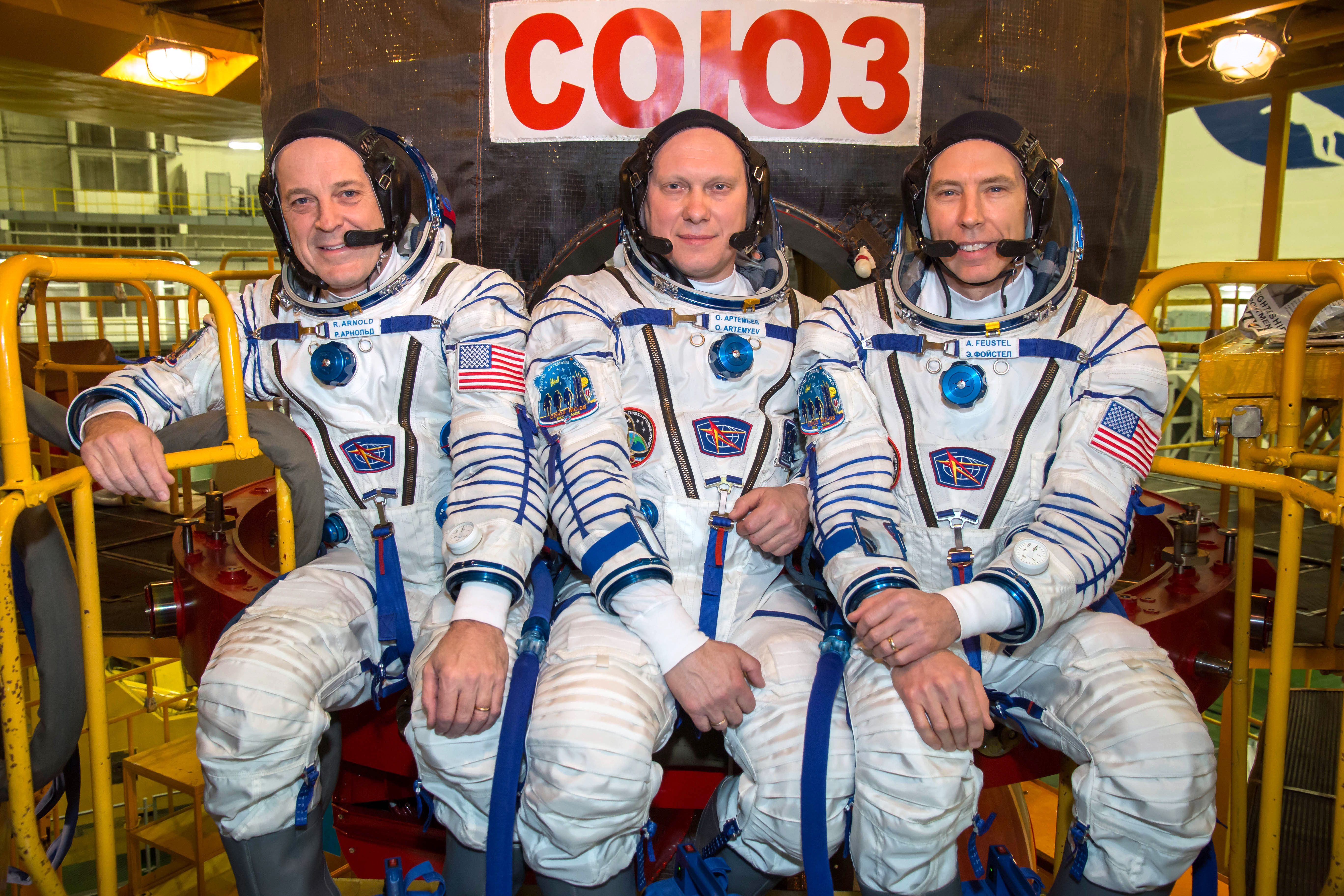 At the Baikonur Cosmodrome in Kazakhstan. Expedition 55 crewmembers Ricky Arnold of NASA (left), Oleg Artemyev of Roscosmos (center) and Drew Feustel of NASA (right) pose for pictures March 5 in front of their Soyuz spacecraft during the crew’s first vehicle fit check activities. Arnold, Artemyev and Feustel will launch March 21 in the Soyuz MS-08 spacecraft from Baikonur for a five-month mission on the International Space Station.